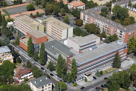 Budapest, district XIV, Hungary, aerial photography PSZF University